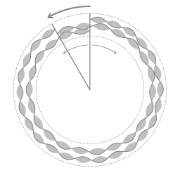 Schematic representation of the frequency shift of the counterpropagating waves in a ring laser interferometer. The ring laser interferometer is rotating counterclockwise. Laserlight propagates in both directions in the ring-shaped laser cavity. The clockwise propagating laserlight is depicted as traveling a shorter distance than the total length of the laser cavity. The counterclockwise propagating laserlight is depicted as traveling a longer distance than the total length of the laser cavity. The lasing process that generates the laserlight is a process of resonance. In the absence of rotation the laserlight has the same frequency in both directions. When the ring laser setup is rotating there is a splitting of the frequencies. It turns out that the counterpropagating light must always go through the same amount of cycles as the co-propagating light. The wavelength, hence the frequency, shifts in such a way that for both directions of propagation the number of cycles is the same. For clarity, in the diagram the counterpropagating and co-propagating laserlight have been separated. In an actual ring laser interferometer this is not the case of course